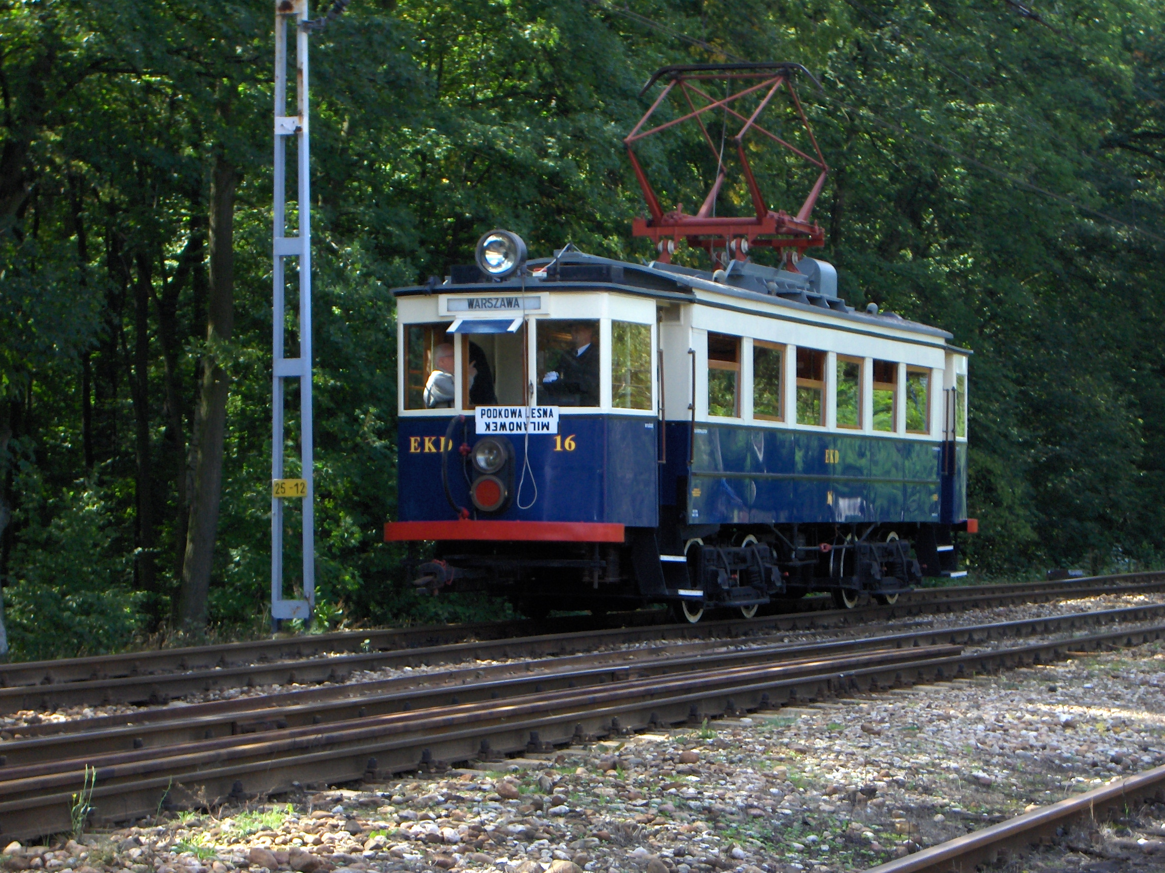 Polish electric multiple unit EN80 in colours of EKD (Electrical Suburb Railway; today WKD - Warsaw Suburb Railway) near Podkowa Leśna Główna station.